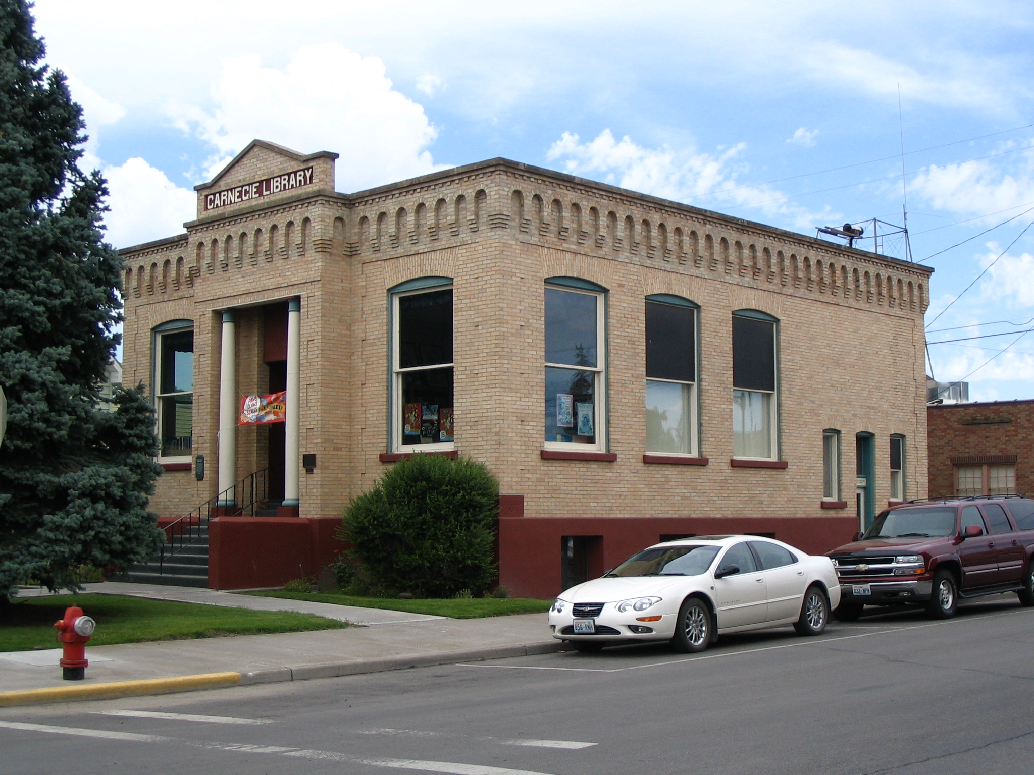 The Carnegie Library in Ritzville, Washington was built in 1907 and still serves as the community's library today. It is listed on the National Register of Historic Places.